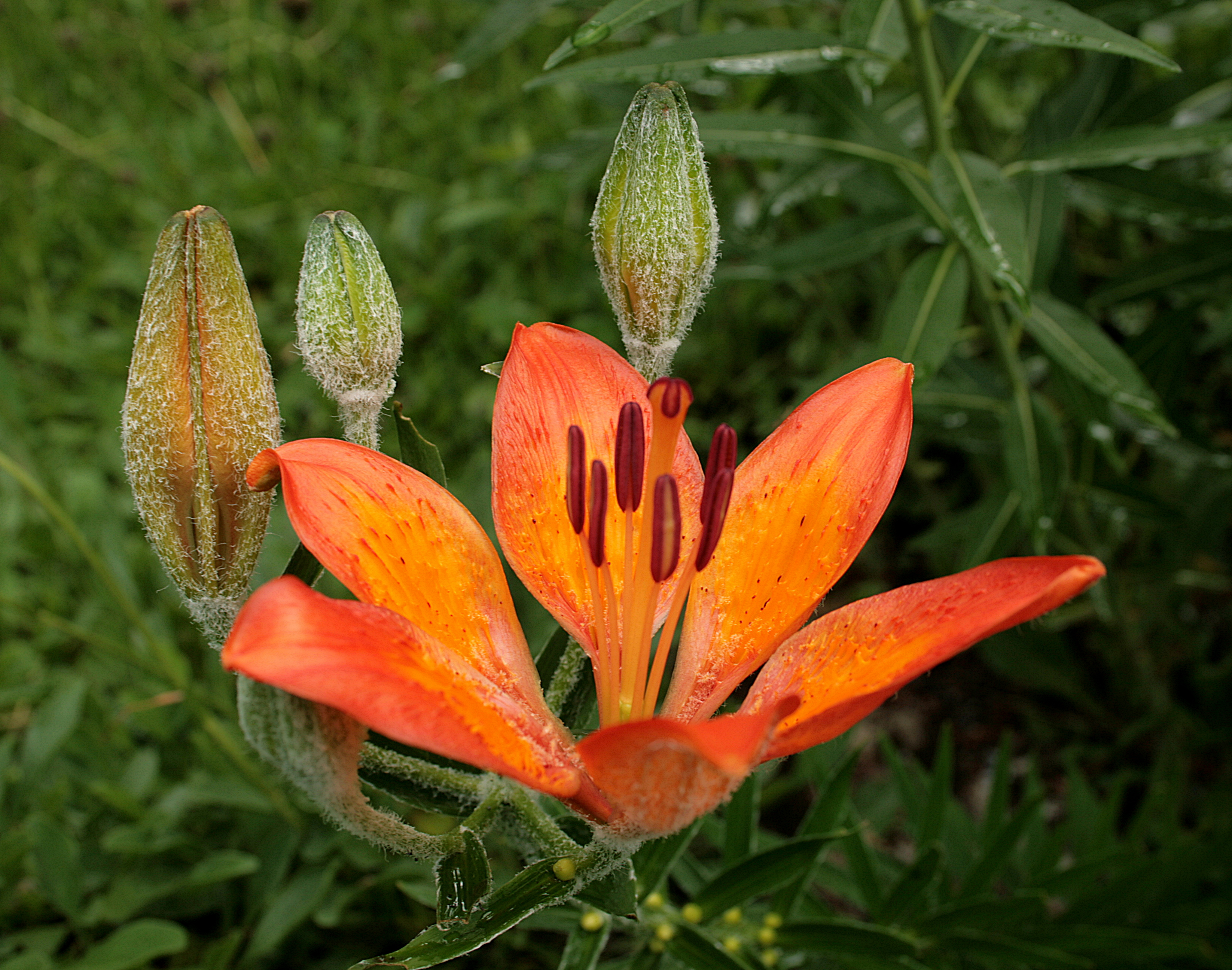 Orange Lily